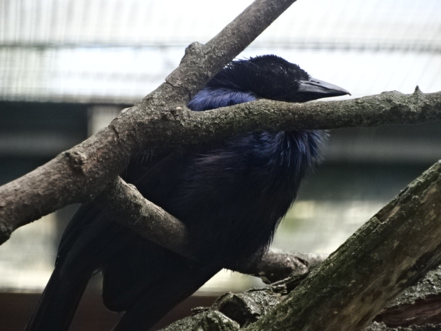 Trumpet manucode (Manucodia keraudrenii) taken at Zoo Berlin's Faisanerie - 10 August 2017